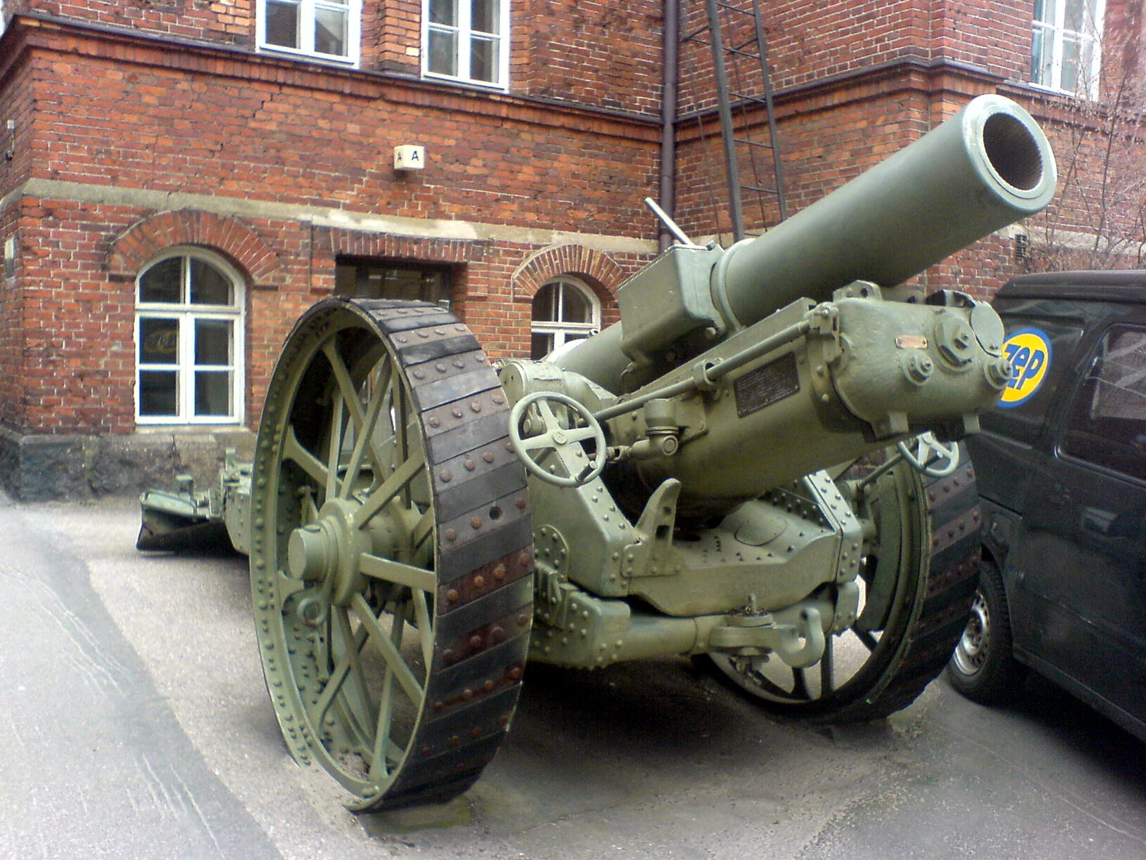 British-designed BL 8-inch Howitzer Mk 6, manufactured in USA as Model 1917 and supplied to the Finnish army. It is identified as Mk 6 by the short barrel and guide ring around the barrel, which Mk 7 and 8 did not have.